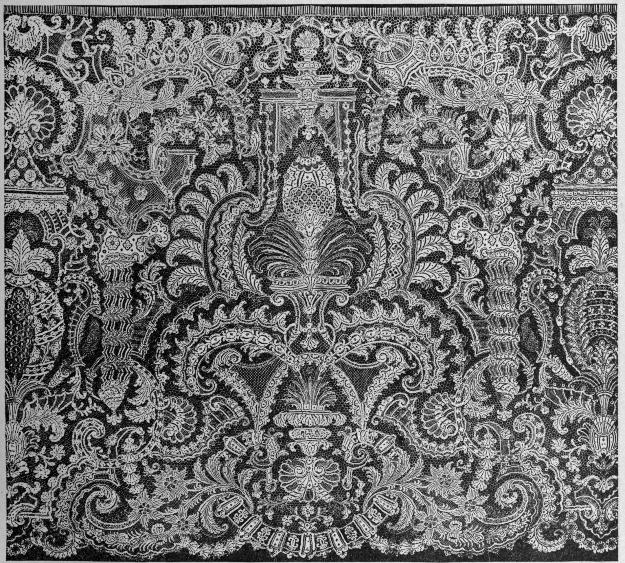 Fig. 24.--Portion of a Flounce of Needlepoint Lace, French, early 18th century, "Point de France." The honeycomb ground is considered to be a peculiarity of "Point d'Argentan": some of the fillings are made in the manner of the "Point d'Alençon" réseau. Illustration from 1911 Encyclopædia Britannica, article Lace.